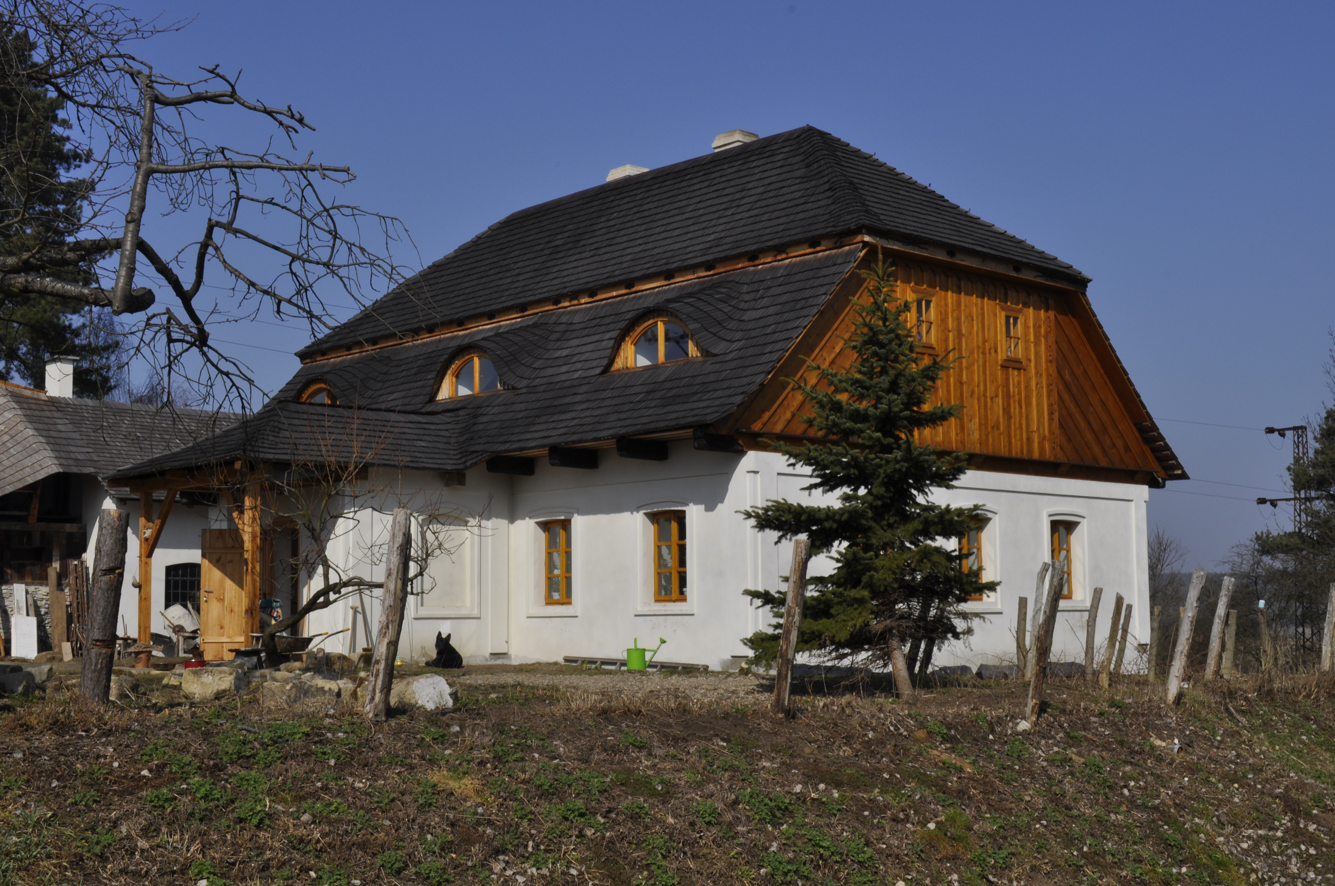 Baroque lodge, Veselí, Ústí nad Labem Region